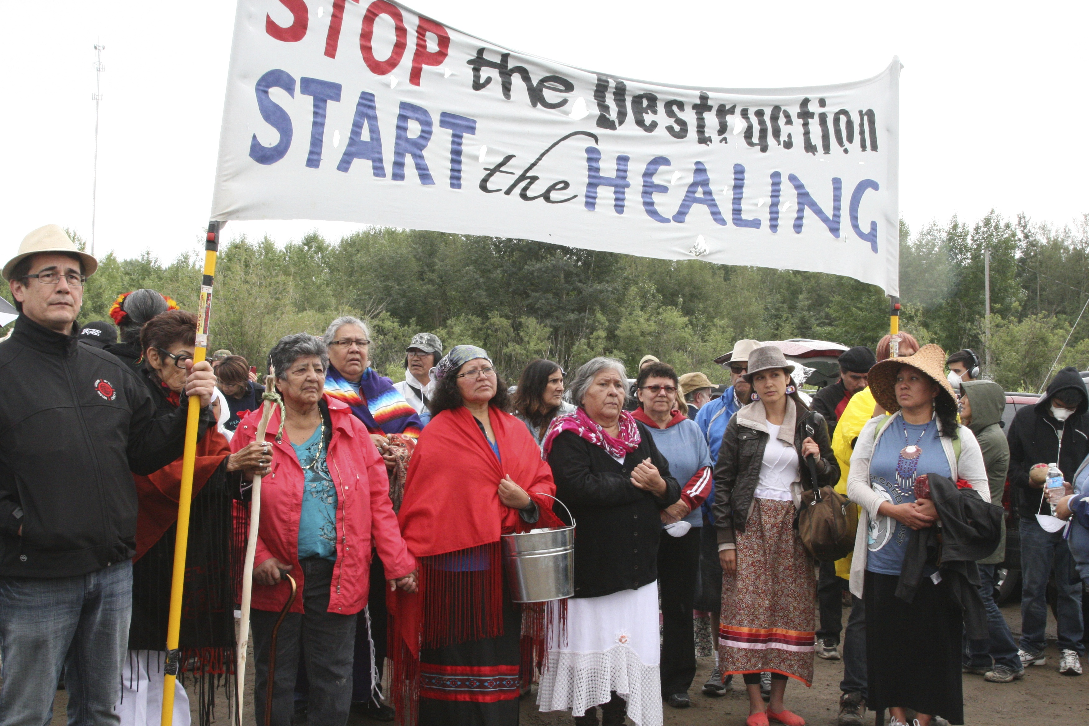 This image shows the actual Tar Sands healing walk taking place by displaying the banner saying stop the destruction start the healing.